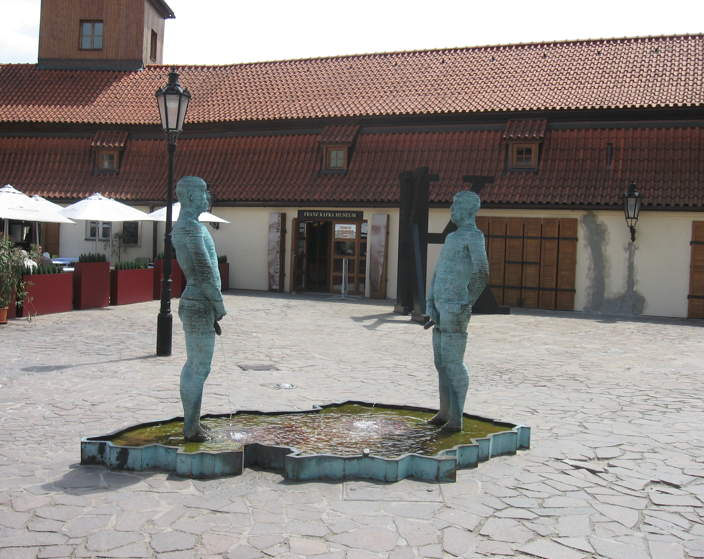 Franz Kafka Museum in Prague